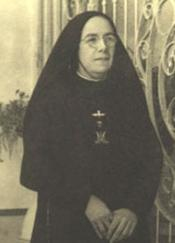 Julia Navarrete Guerrero, en religion Mère Julia de las Espinas del Sagrado Corazon (1881-1974), Mexicana religiosa, venerable catholic